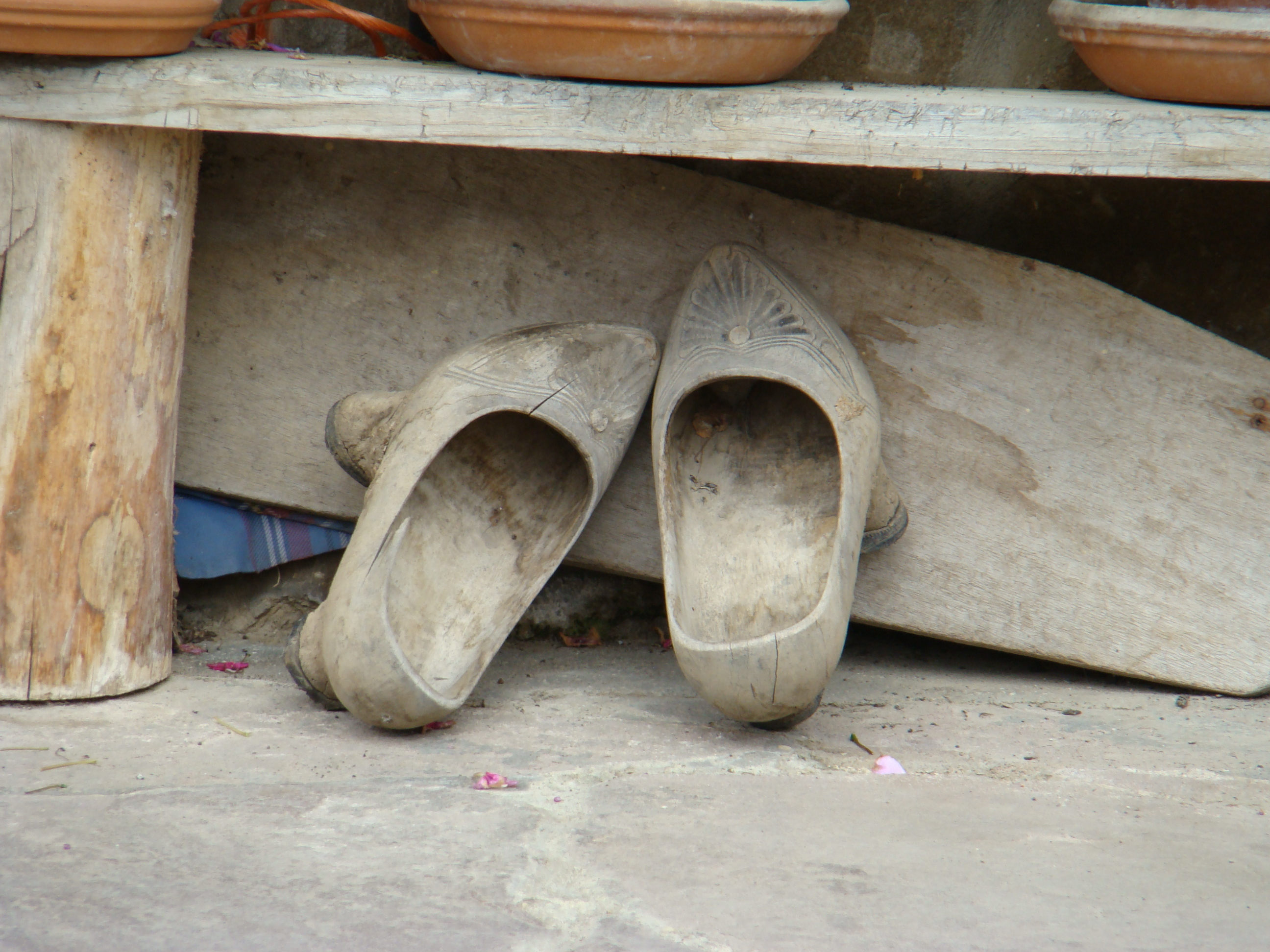 Clogs at a house in the village of Garabandal (Cantabria, Spain)